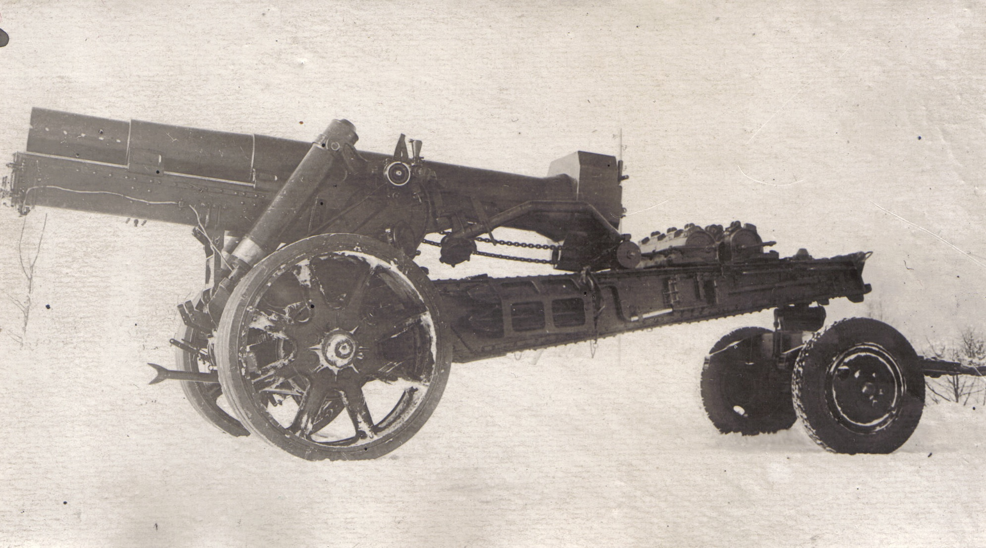 203-mm M-40 howitzer on march.